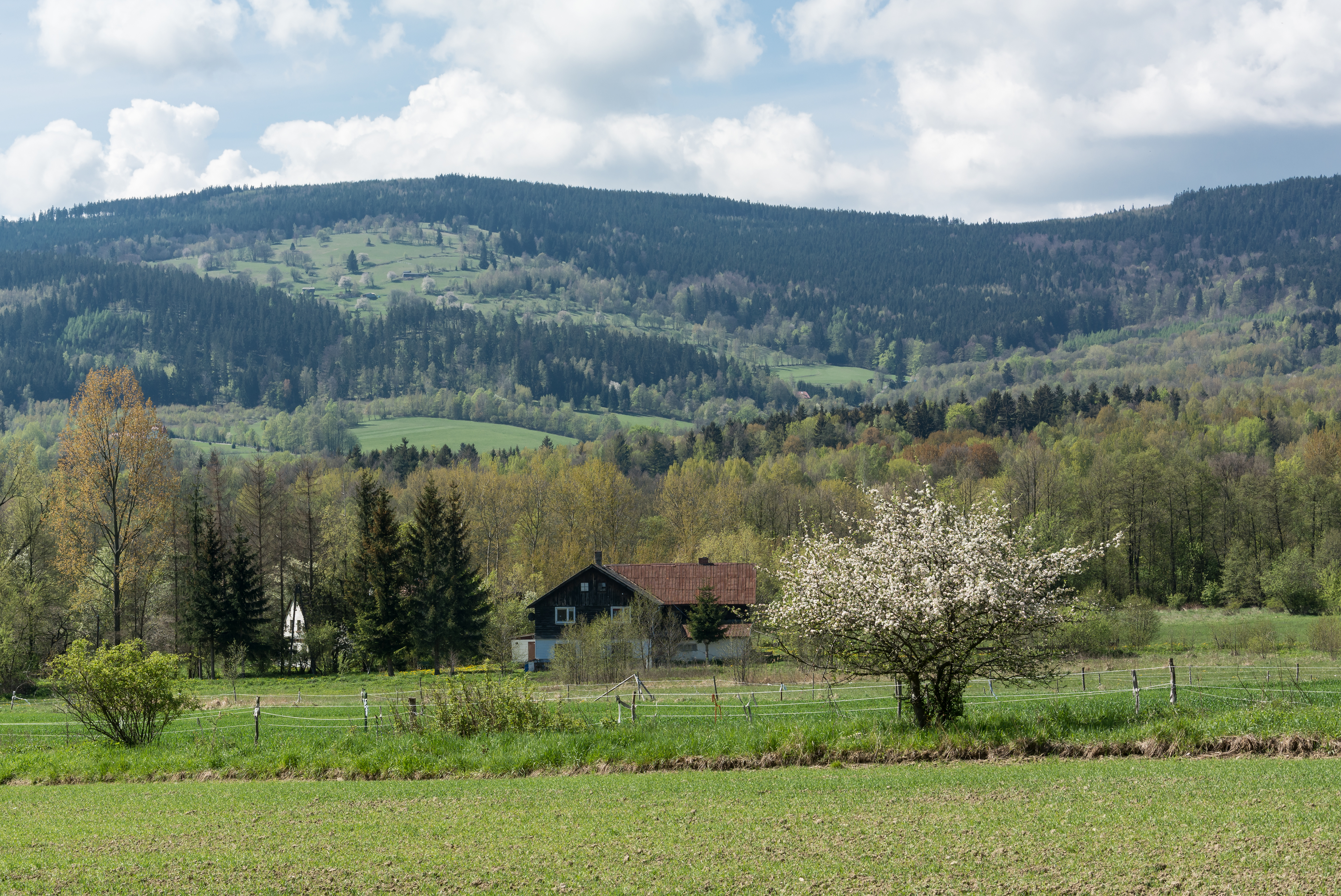 House in Stara Bystrzyca